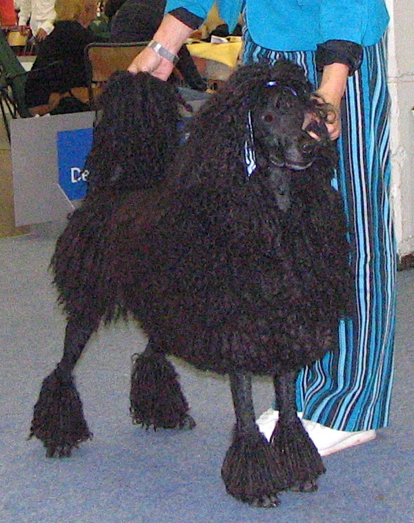 A black corded Standard Poodle.